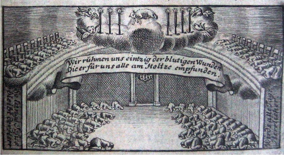 Proskynesis. Praying Moravians. bottom: men; top: women, lamb of god